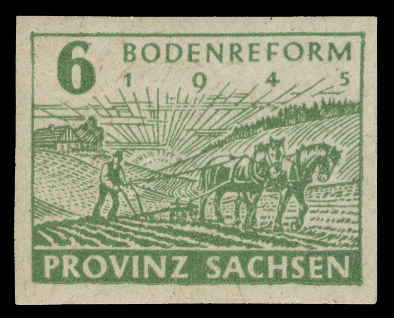 series of stamps of the Soviet occupation zone, Provinz Saxony, Bodenreform Ausgabepreis: 6 Pfennig First Day of Issue / Erstausgabetag: 17. Dezember 1945 Michel-Katalog-Nr: 85 (Alliierte Besatzung - Sowjetische Zone - Provinz Sachsen)